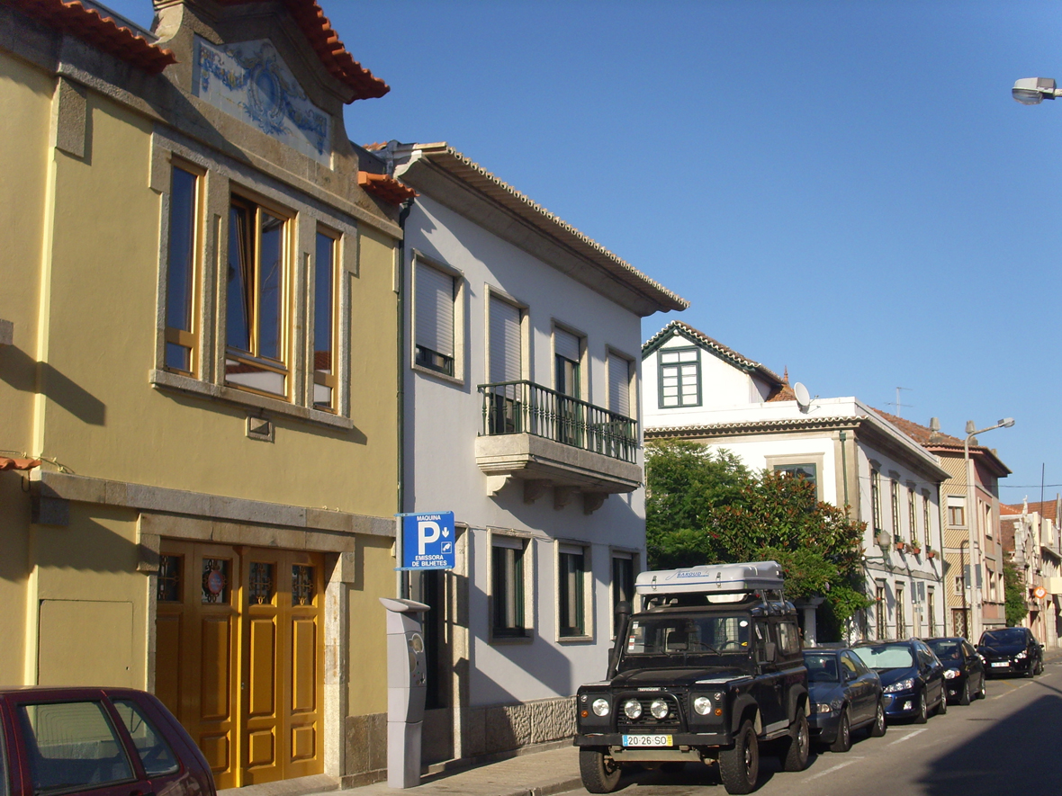 Santos Minho Street in Downtown Póvoa